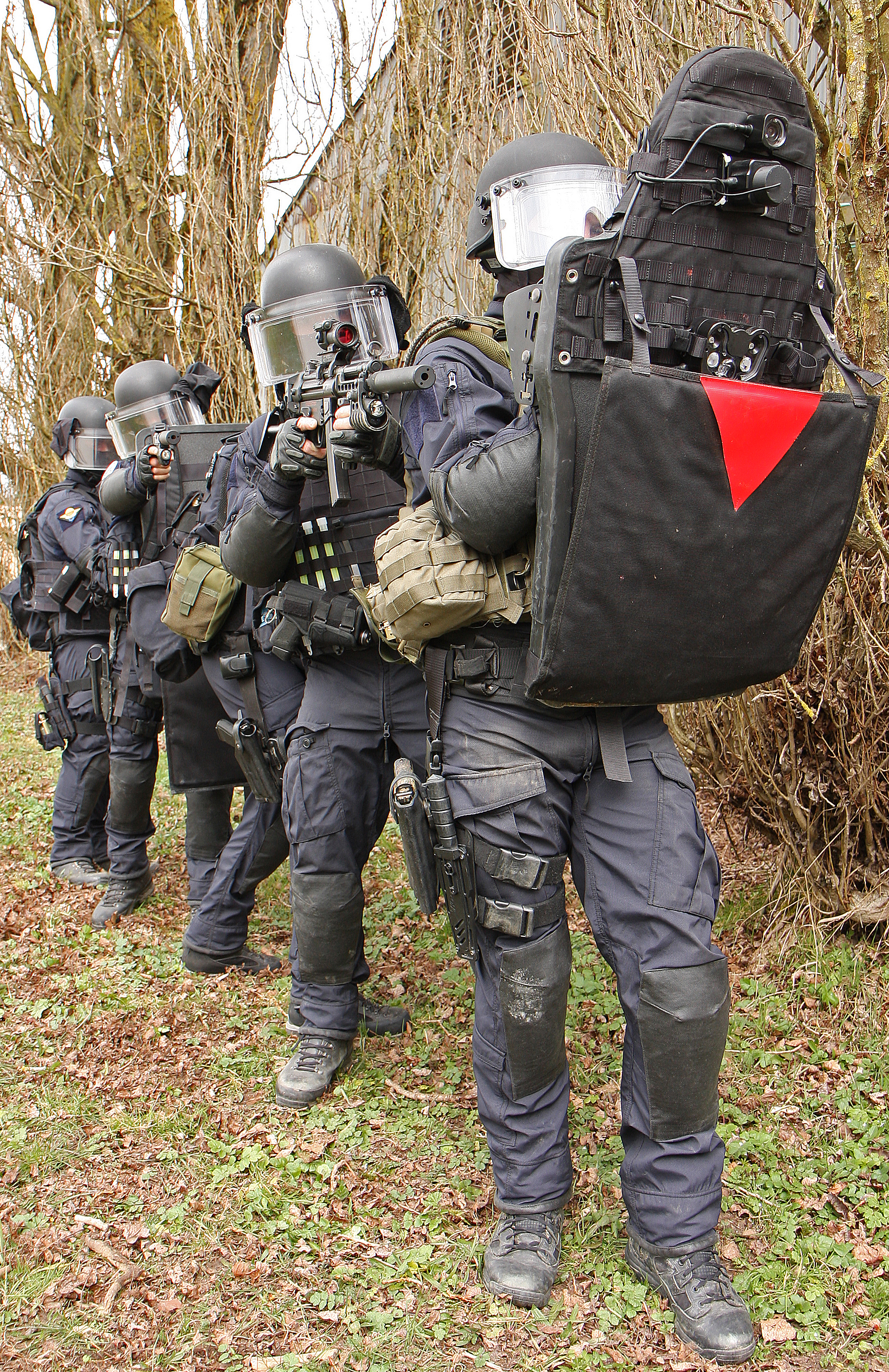 French Gendarmerie GIGN SWAT troopers in assault column1